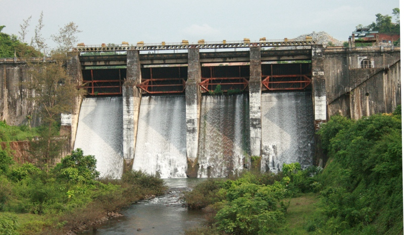 Front view of the Peruvannamuzhi Dam